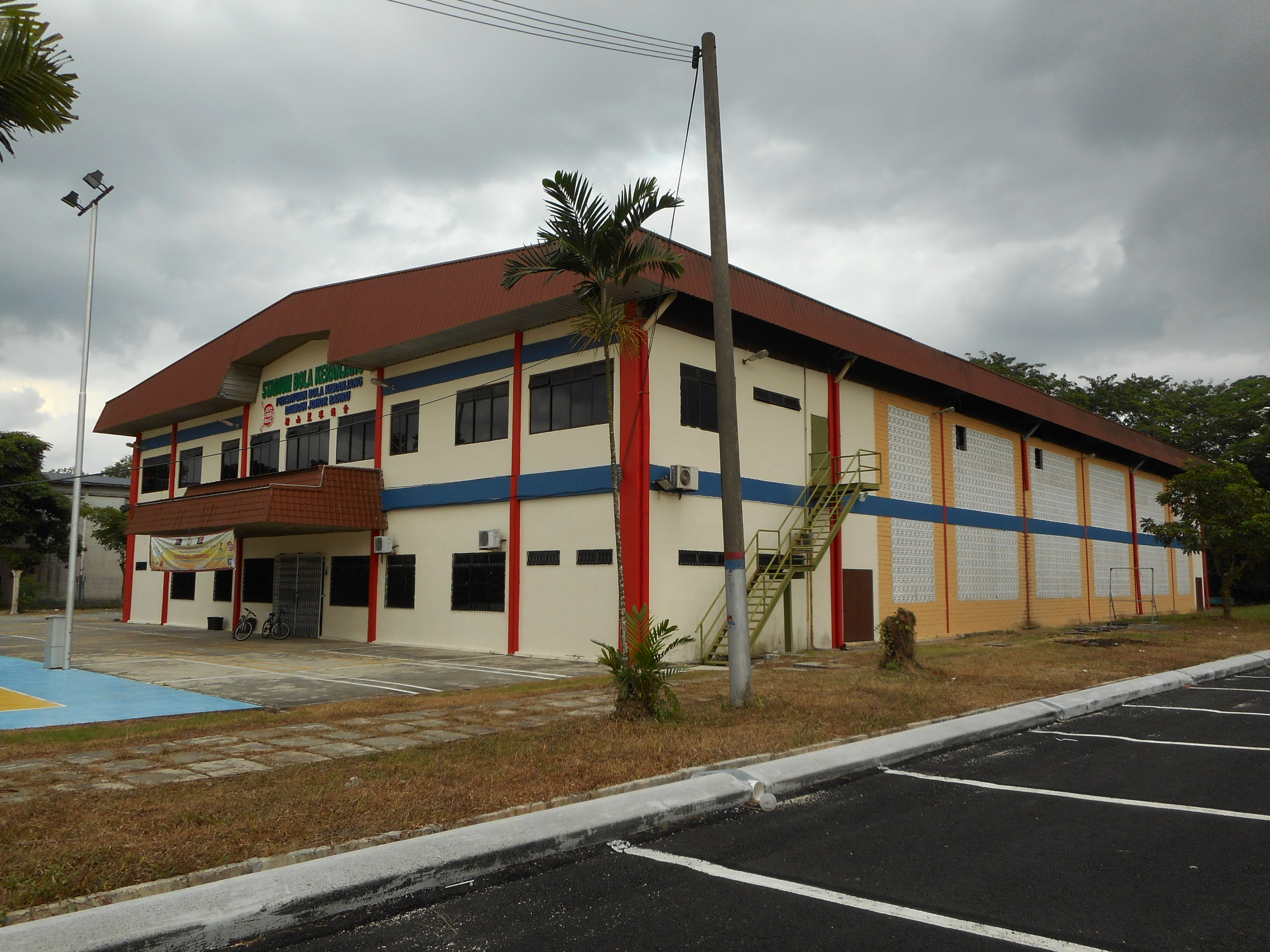 Johor Bahru District Basketball Association Basketball Stadium, Johor Bahru, Johor, Malaysia